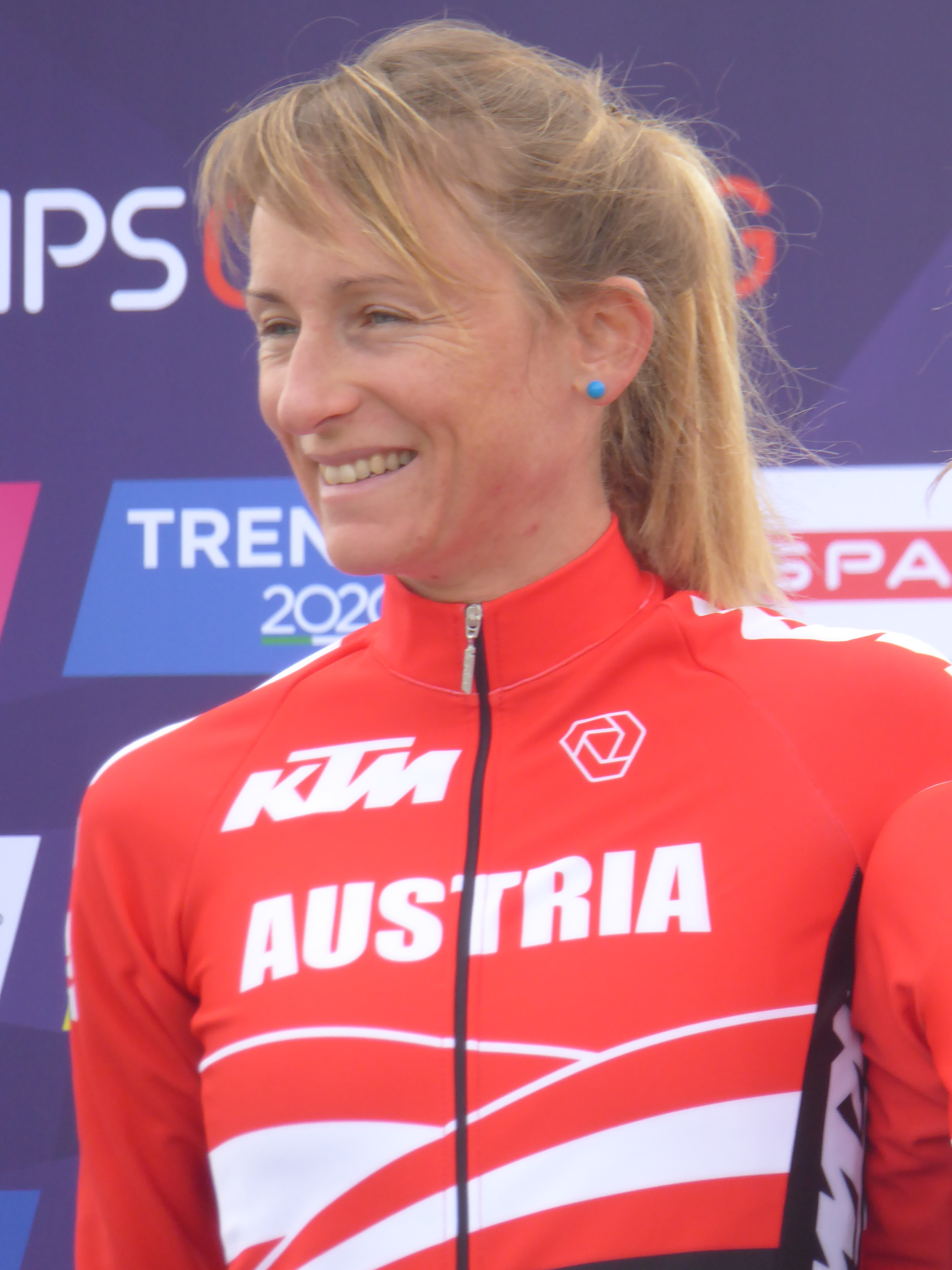 Martina Ritter (Austria), prior to the women's road race at the 2018 UEC European Road Cycling Championships in Glasgow.